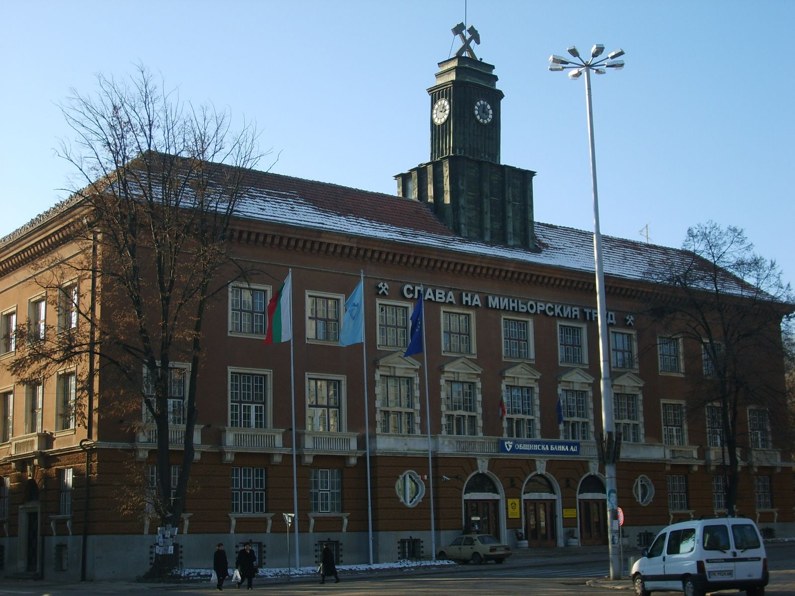 Pernik, Bulgaria: the Municipal Bank branch (former Mining Administration building), with a sculpture of hammer and sickle on the clock tower.